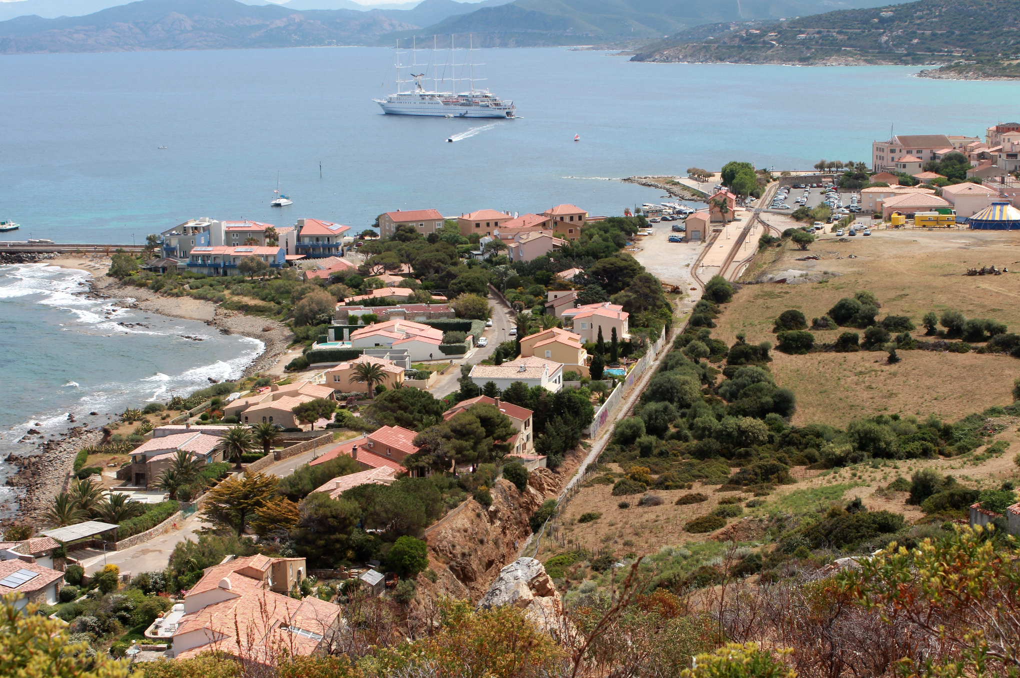 L'Île-Rousse: The Lotissement des Îles and the railway station. The cruiseship in the background is the "Club Med 2".